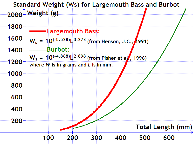 This original graph shows a comparison between the standard weight equations for largemouth bass and burbot, two species of fish. Data used to make the graph are from: Henson, J. C. 1991. Quantitative description and development of a species-specific growth form for largemouth bass, with application to the relative weight index. Master's thesis, Texas A&M University, College Station; Fisher, S., D. Willis, and K. Pope. 1996. An assessment of burbot (Lota lota) weight}Ulength data from North American populations. Canadian Journal of Zoology 74:570-575